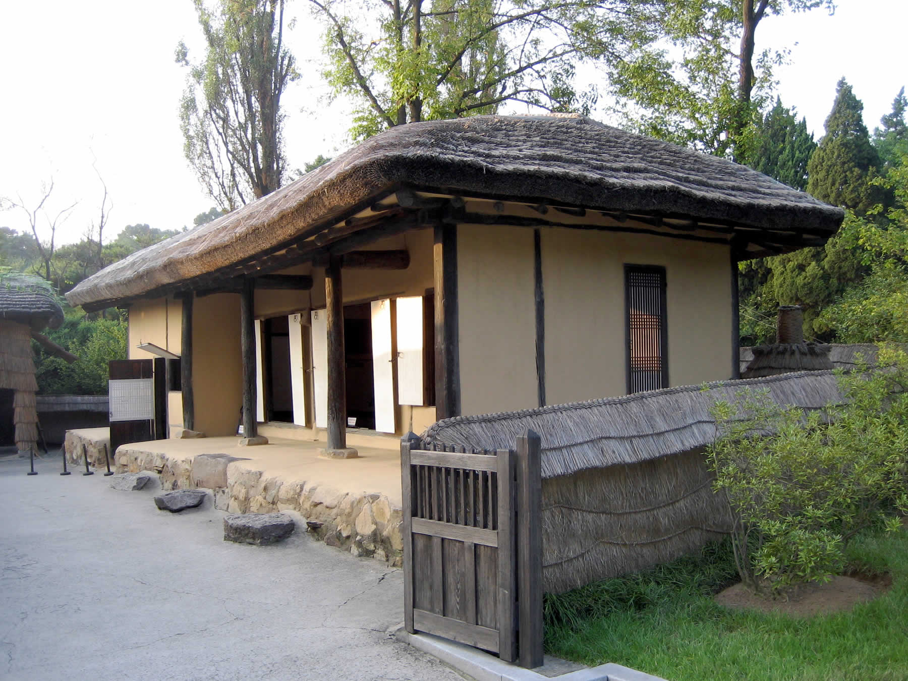 The Mangyondae Revolutionary Site just outside Pyongyang was the birthplace of the DPRK's future president Kim Il Sung.